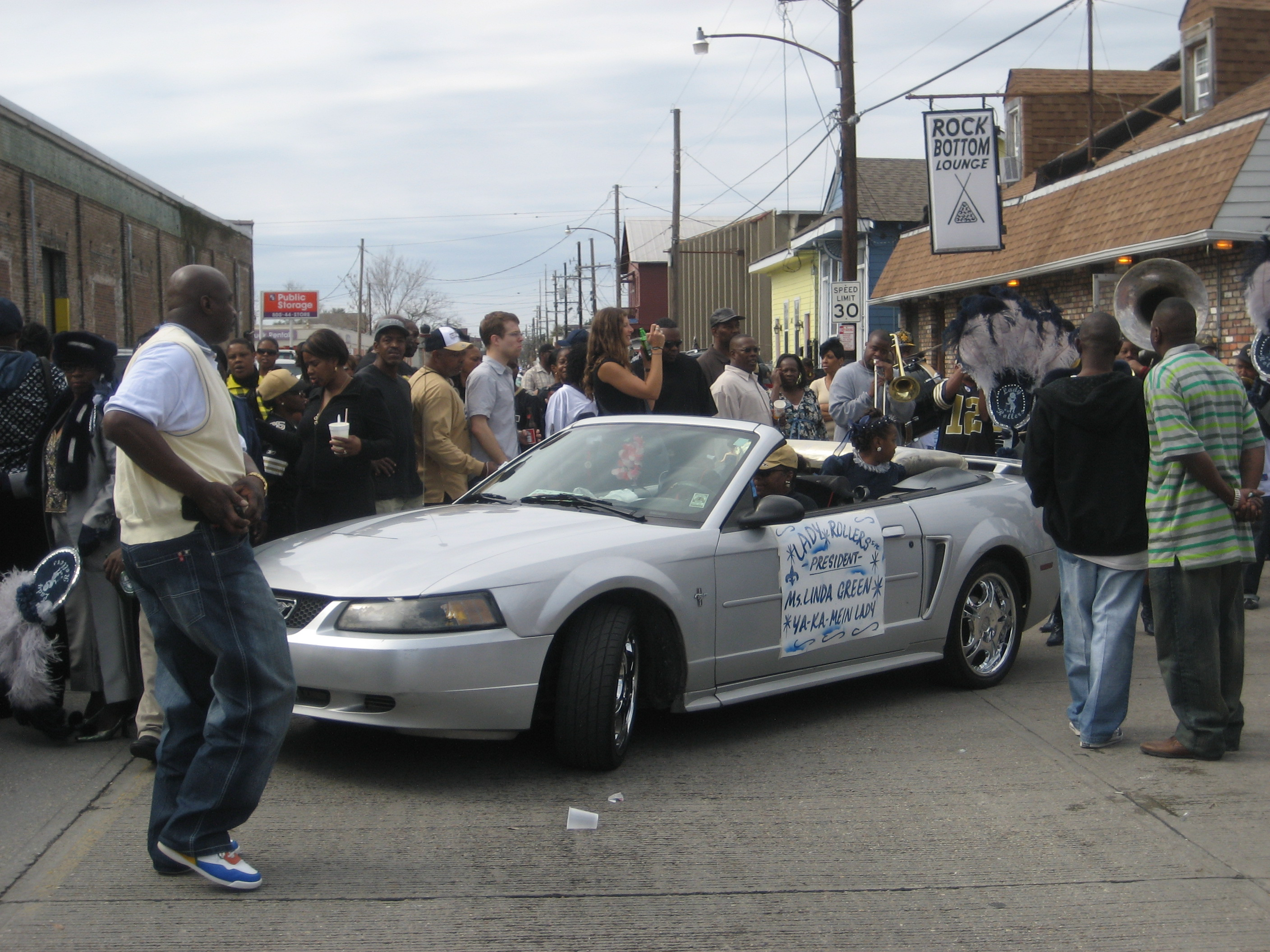 Ladies & Men of Unity and the Lady Rollers Second Line Parade, Uptown New Orleans